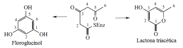 Triketides scheme